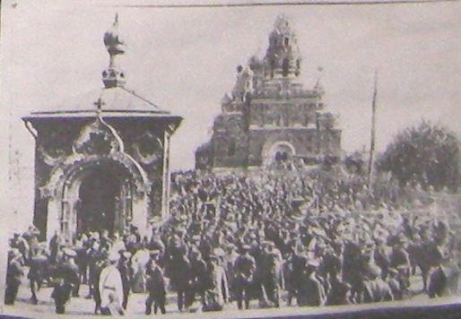 Inauguration of the Putilov Church in Saint Petersburg on May 22, 1906.